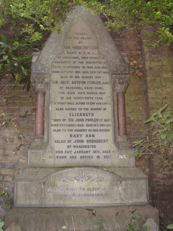 John Fowler funerary monument, Brompton Cemetery, London